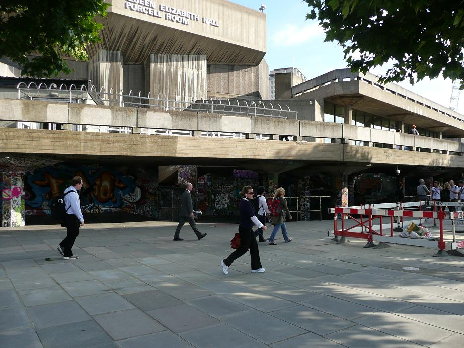 Skatepark in London, in the undercroft of the Queen Elizabeth Hall building. View from riverside walk before later addition of Wahaca pop-up restaurant on upper level walkway